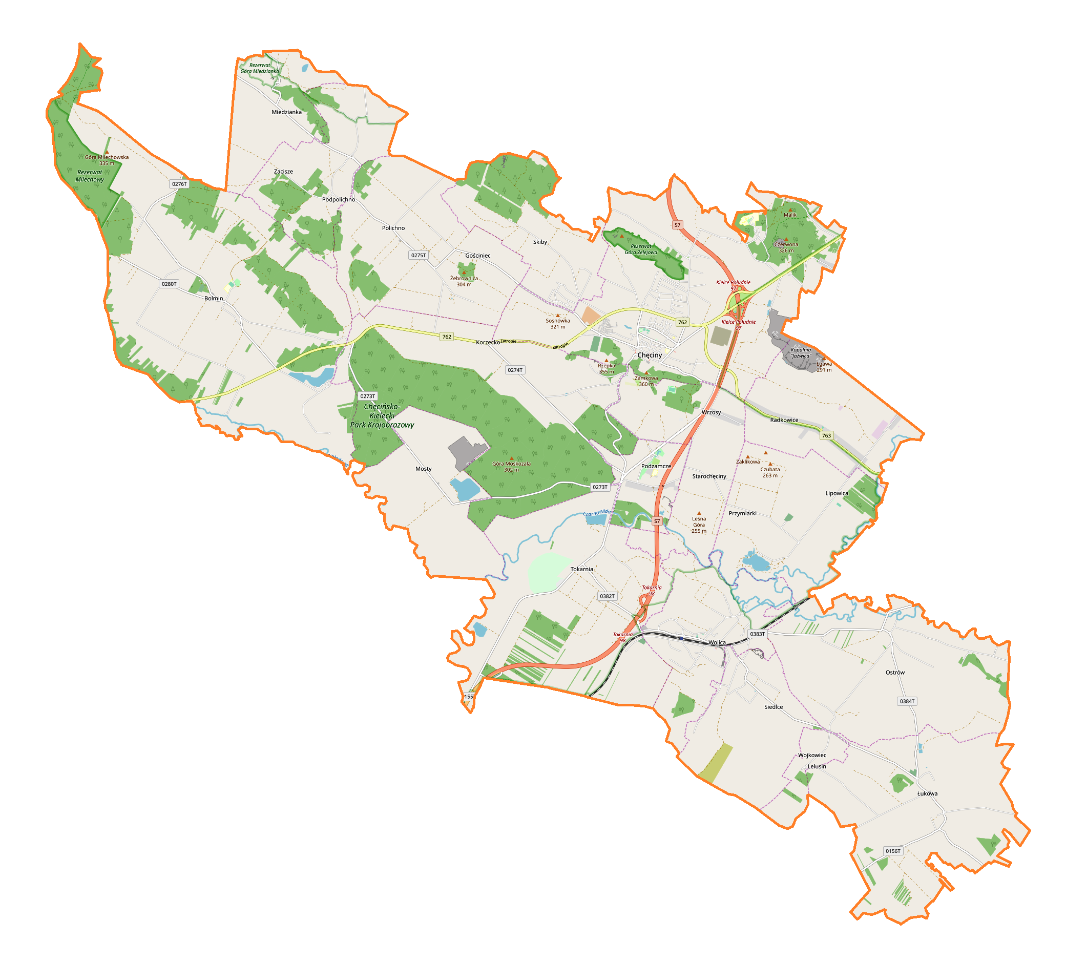 Location map